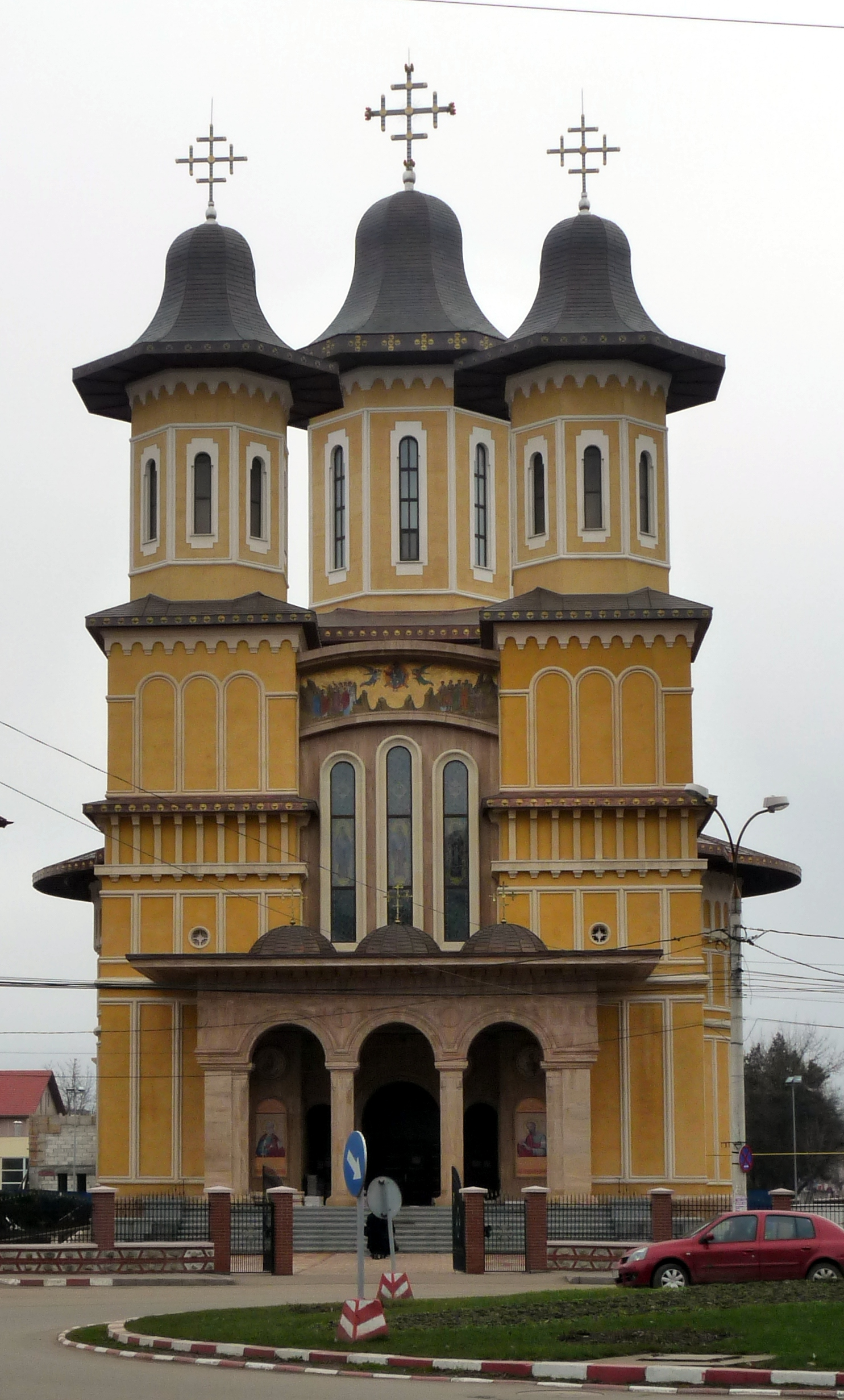 The episcopal cathedral of the Ascention, Buzău, Romania.